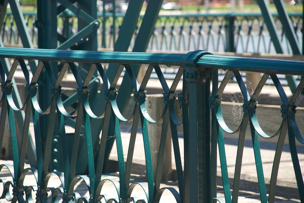 Detail of the railings of the Sixth Street Bridge in Grand Rapids, Michigan.